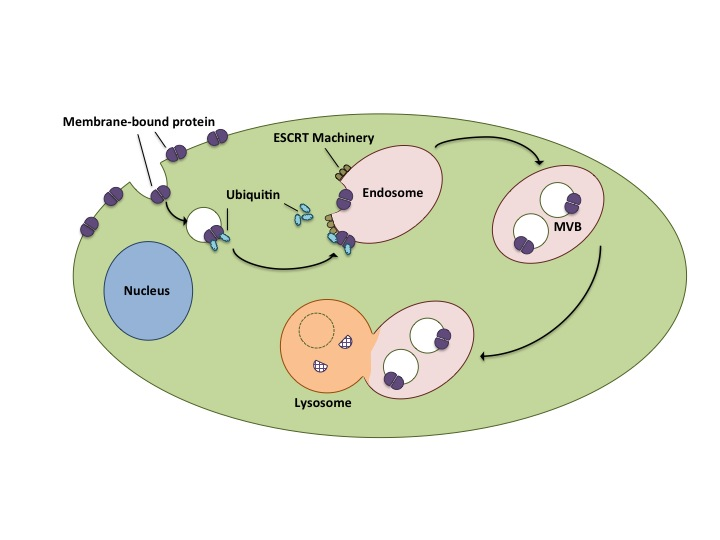 Adapted from Oliver Schmidt & David Teis, The ESCRT Machinery, Curr Biol. 2012 February 21; 22(4): R116–R120. (With permission of Author)